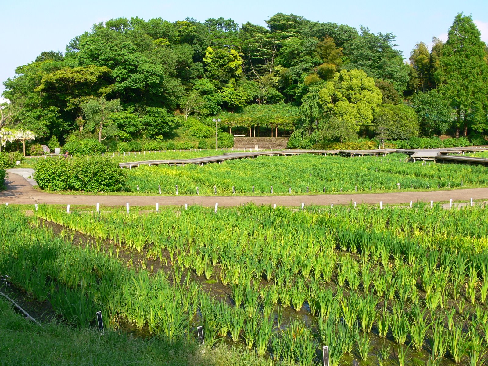 Yokosuka Iris Garden.Panasonic Lumix DMC-FZ30